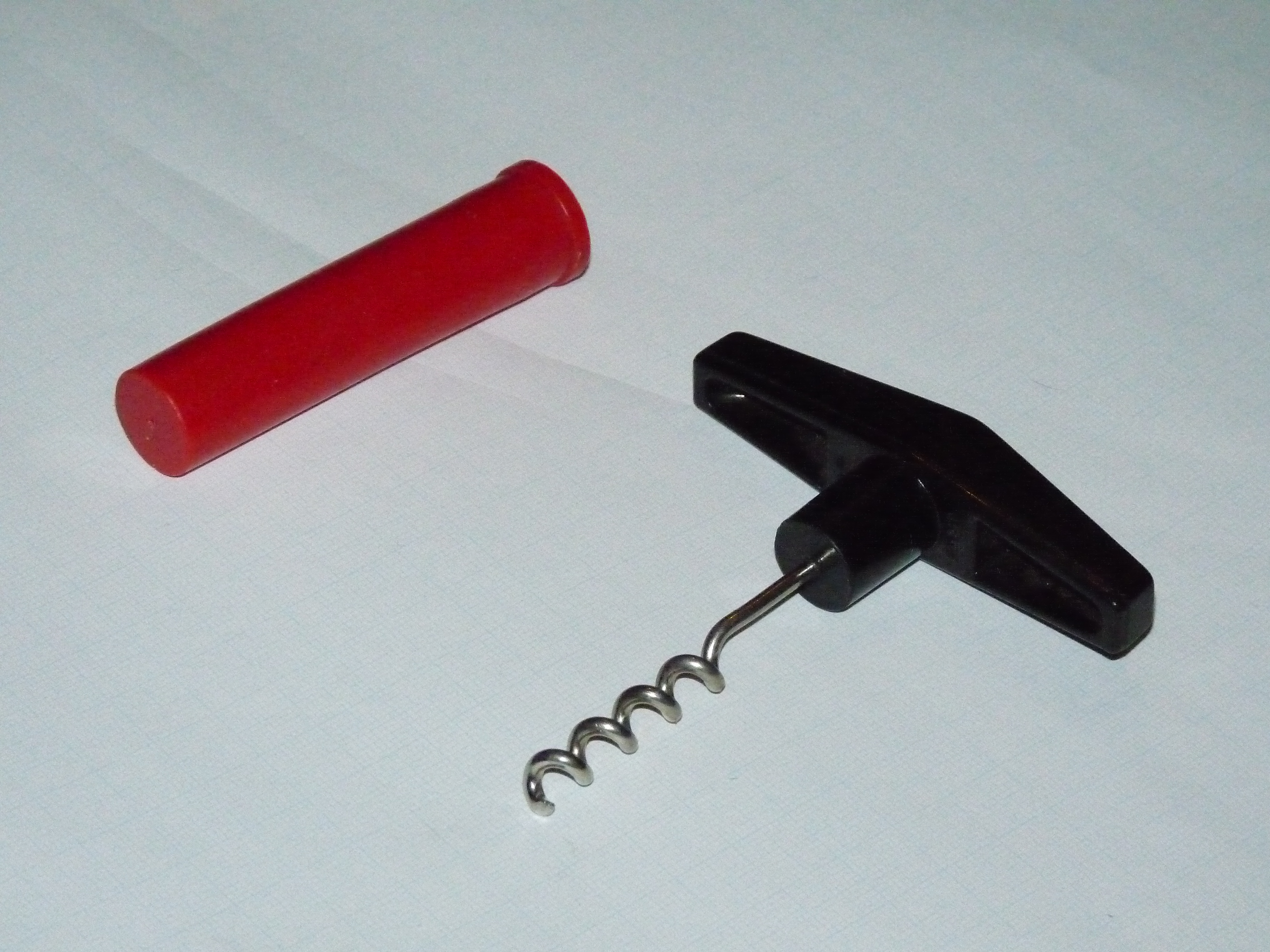 Have been manufactured in 1978, but working good even 34 years later.